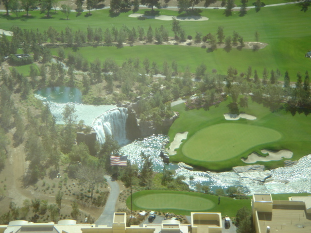 18th hole at the Wynn Golf Course, Las Vegas, Nevada.